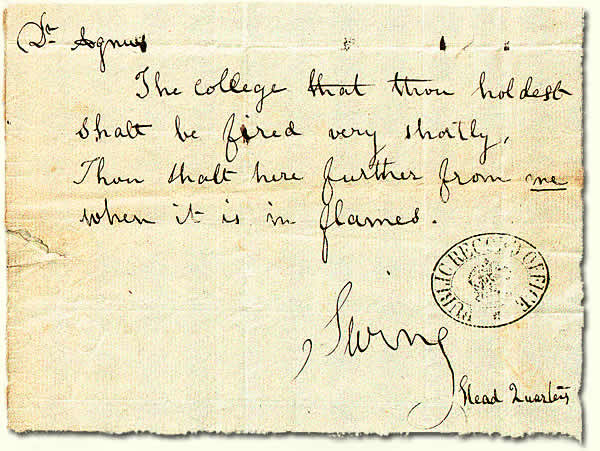 Example of letter sent during the Swing Riots. This letter was sent to Corp. Christ. Coll. Cambridge in 1830. It says: "Dr Agnus. The college that thou holdest shalt be fired very shortly. Thou shalt here further from me when it is in flames. Swing Head Quarters."